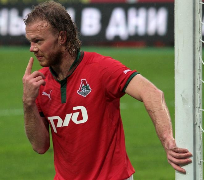 Vitaliy Denisov playing for FC Lokomotiv Moscow in 2013.